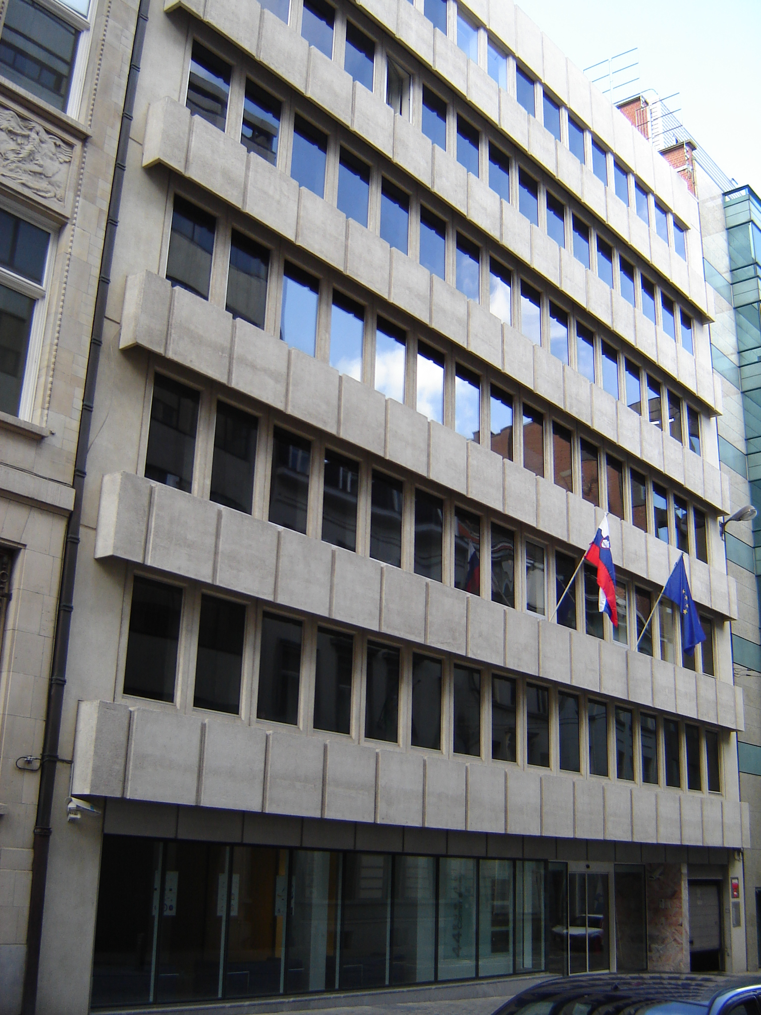 Building of the Permanent Representation of the Republic of Slovenia to the EU